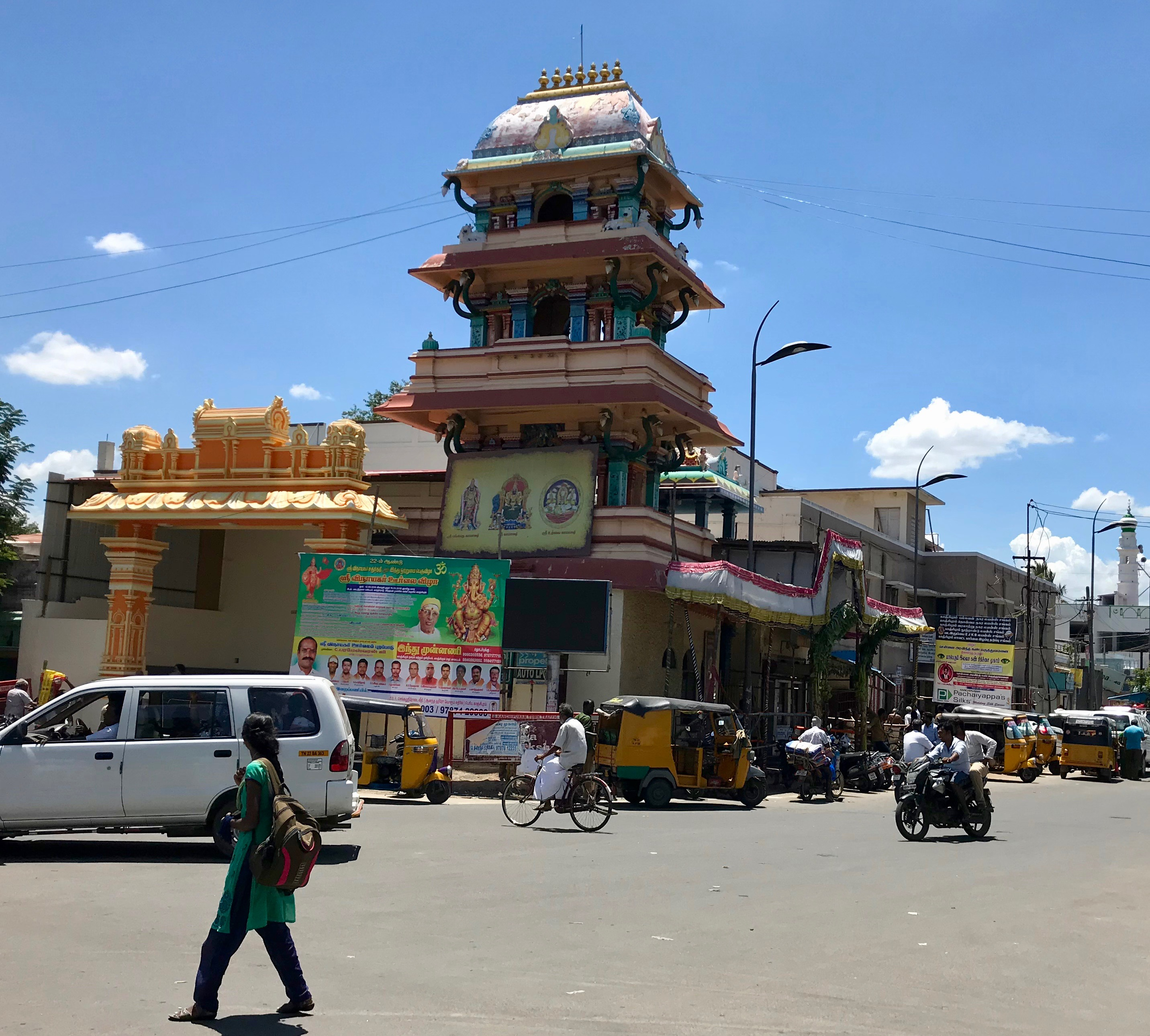 Kanchi Kamakoti Peetham, Kanchipuram Tamil Nadu